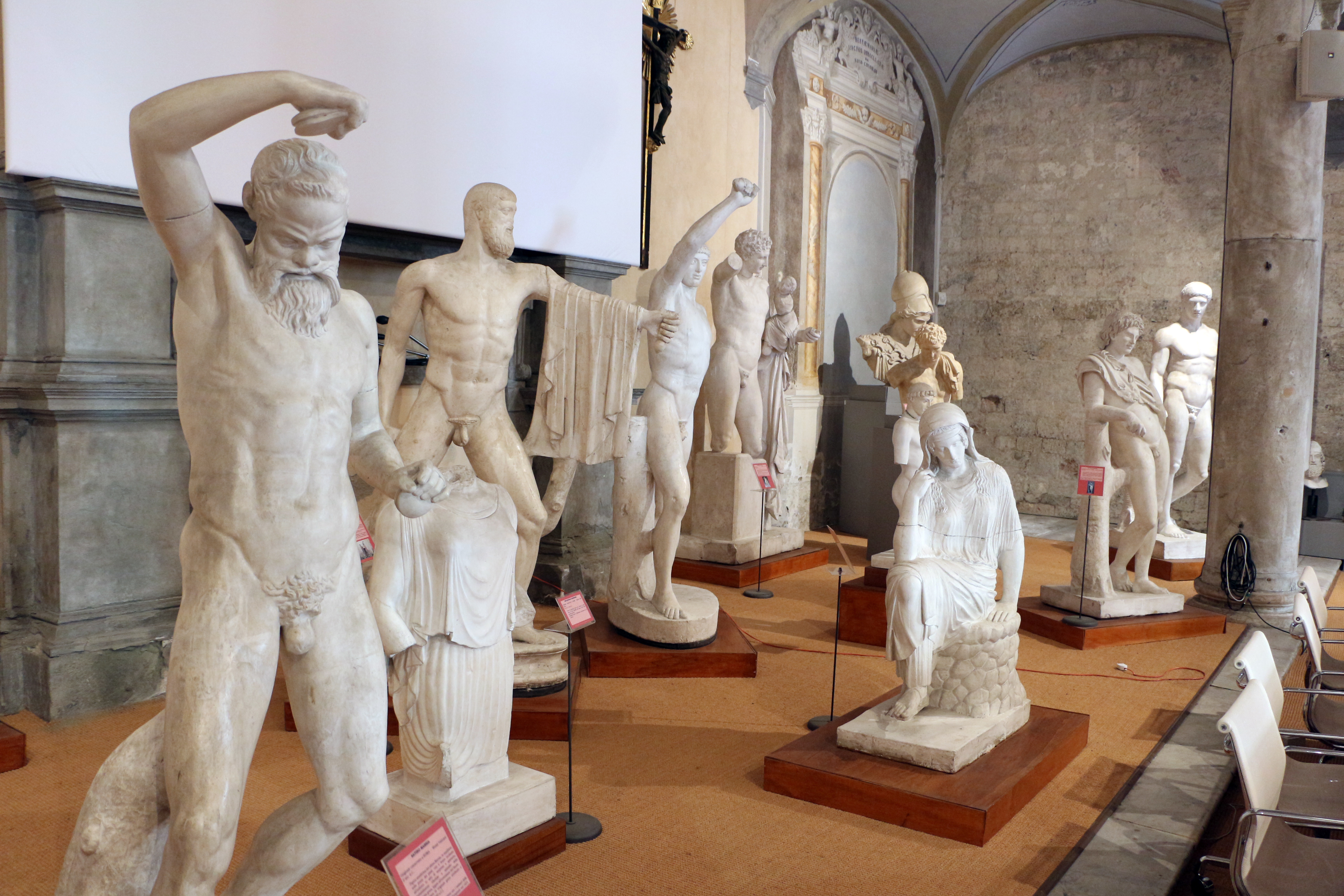 San Paolo all'Orto (Pisa)